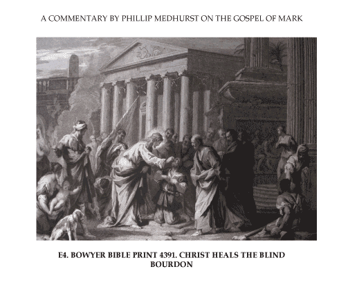 Christ heals the blind. Bourdon. In the Bowyer Bible in Bolton Museum, England. Print 4391. From “An Illustrated Commentary on the Gospel of Mark” by Phillip Medhurst. Section E. more miraculous healings. Mark 2:1-12, 23-28, 3:1-6, 7:31-37, 8:14-26, 9:14-29.